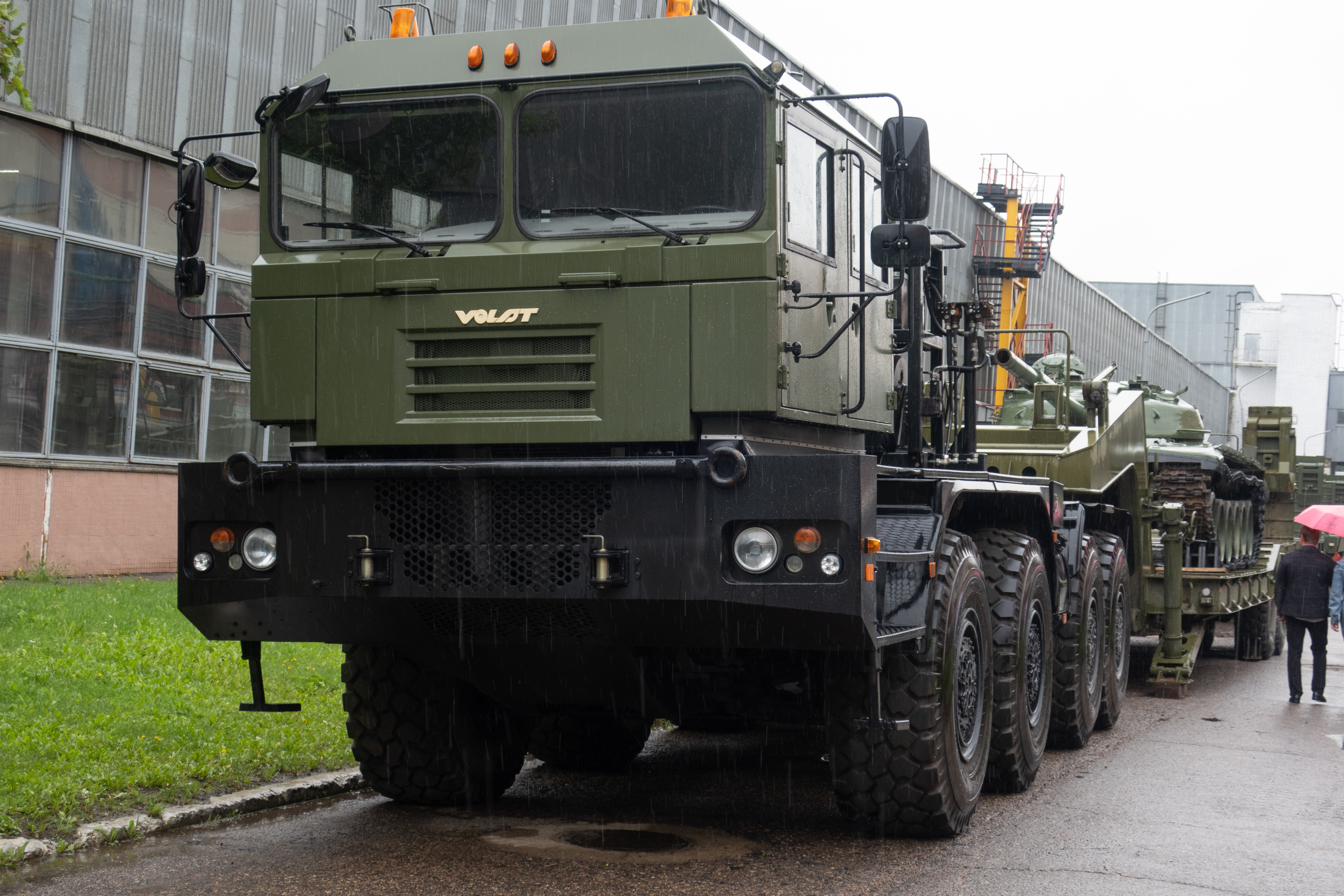 Seen at MZKT (Volat) open day 2019 (Minsk, Belarus)